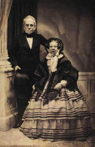 William Frederik Duntzfelt (1792-1863), Danish merchant and politician, with his wife Bertha née Christmas (1797-1872)